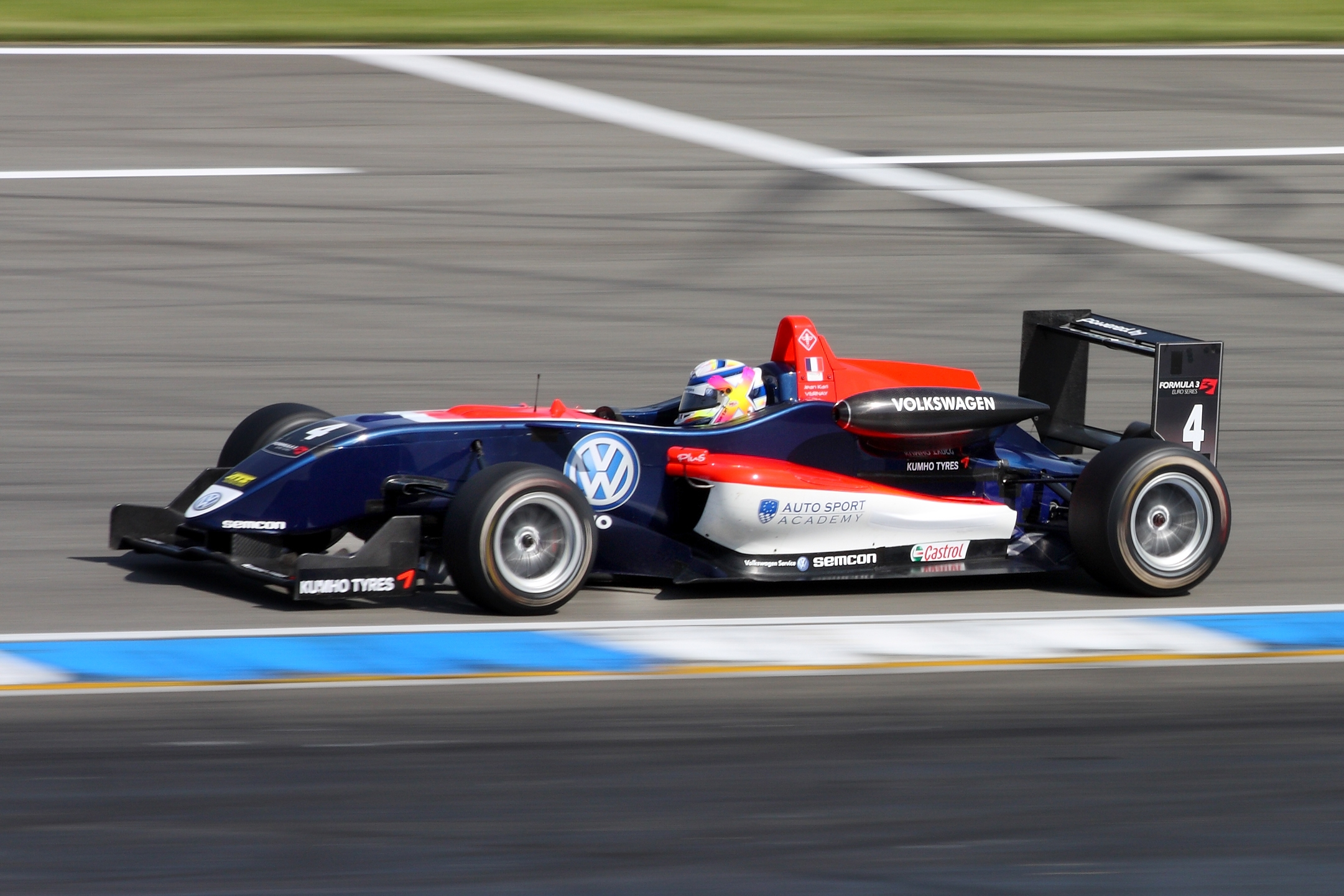 Formula 3 Euroseries, Hockenheimring, #4 Jean Karl Vernay (EXIF: 1/125s, f/13, 170mm, ISO 100)